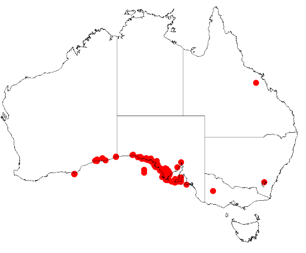 Acacia anceps Occurrence data from Australasia Virtual Herbarium downloaded from on 8 December 2018